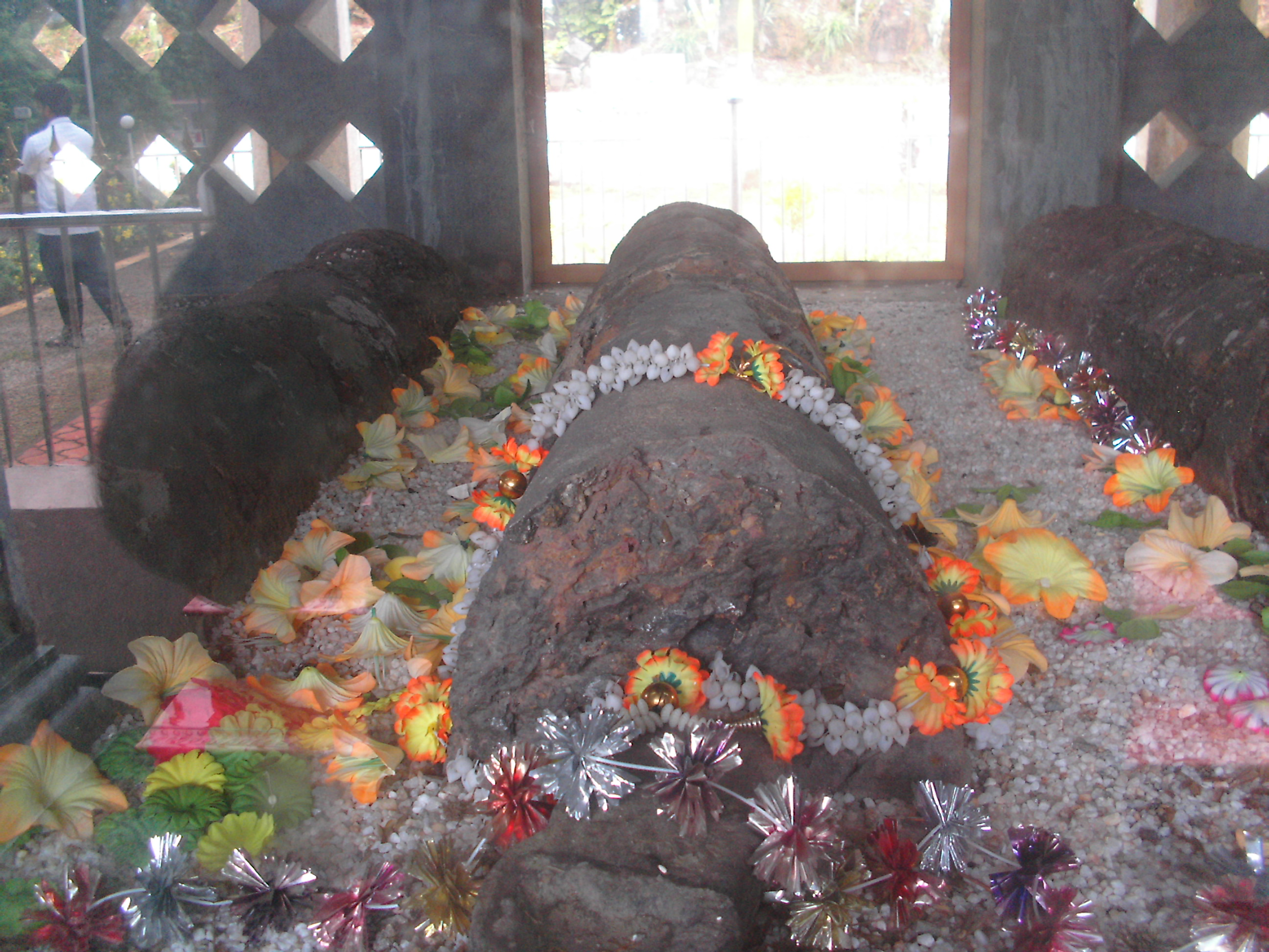 Tomb of an Archdeacon, Kuravilangad, Kerala, India